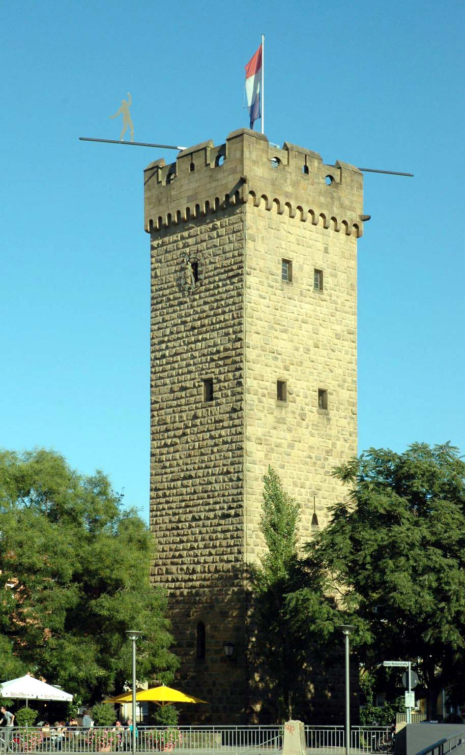 „Götzenturm“ tower in Heilbronn (Germany)